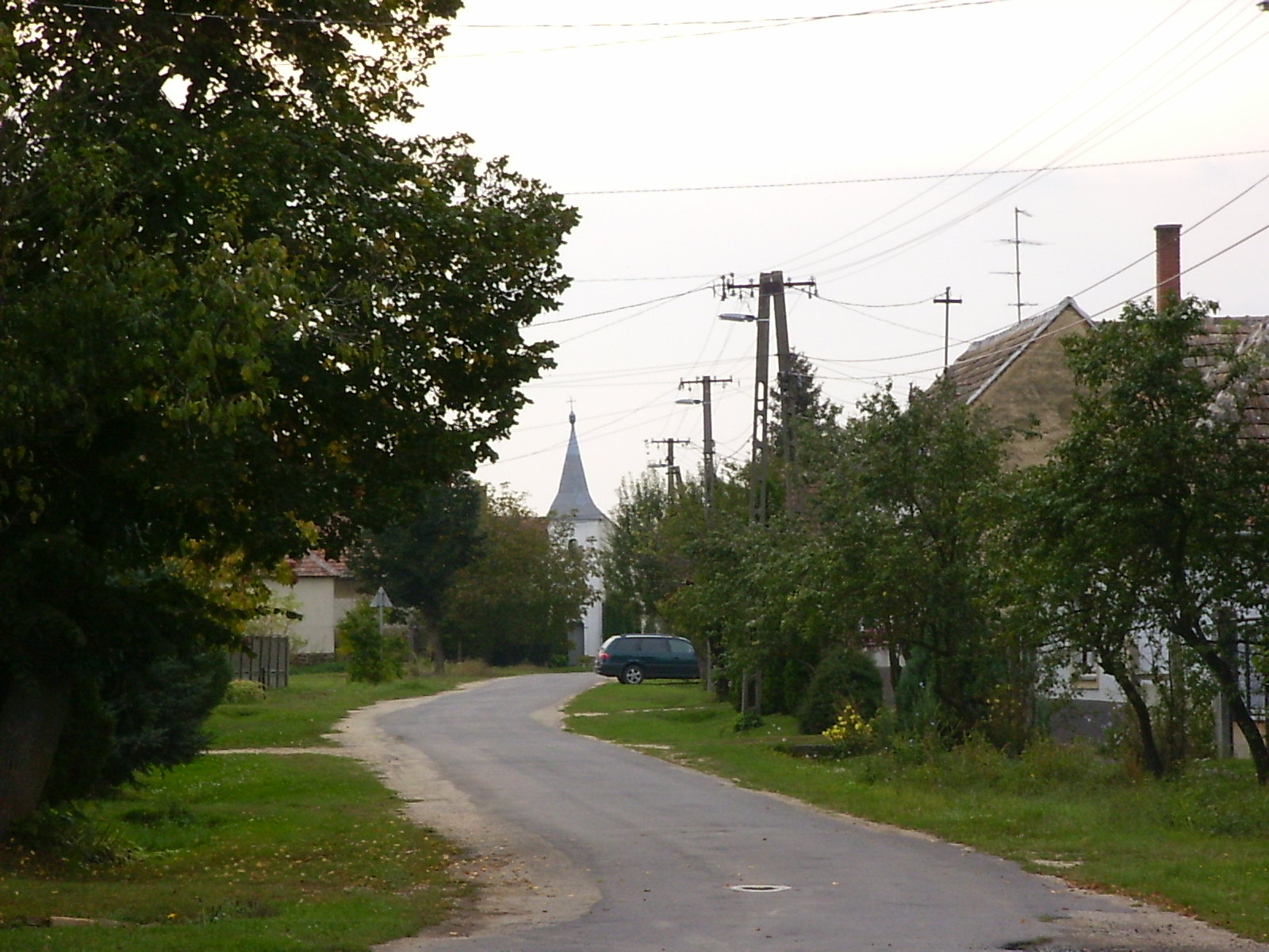 Csér, street wiew in Fő utca (Main street)